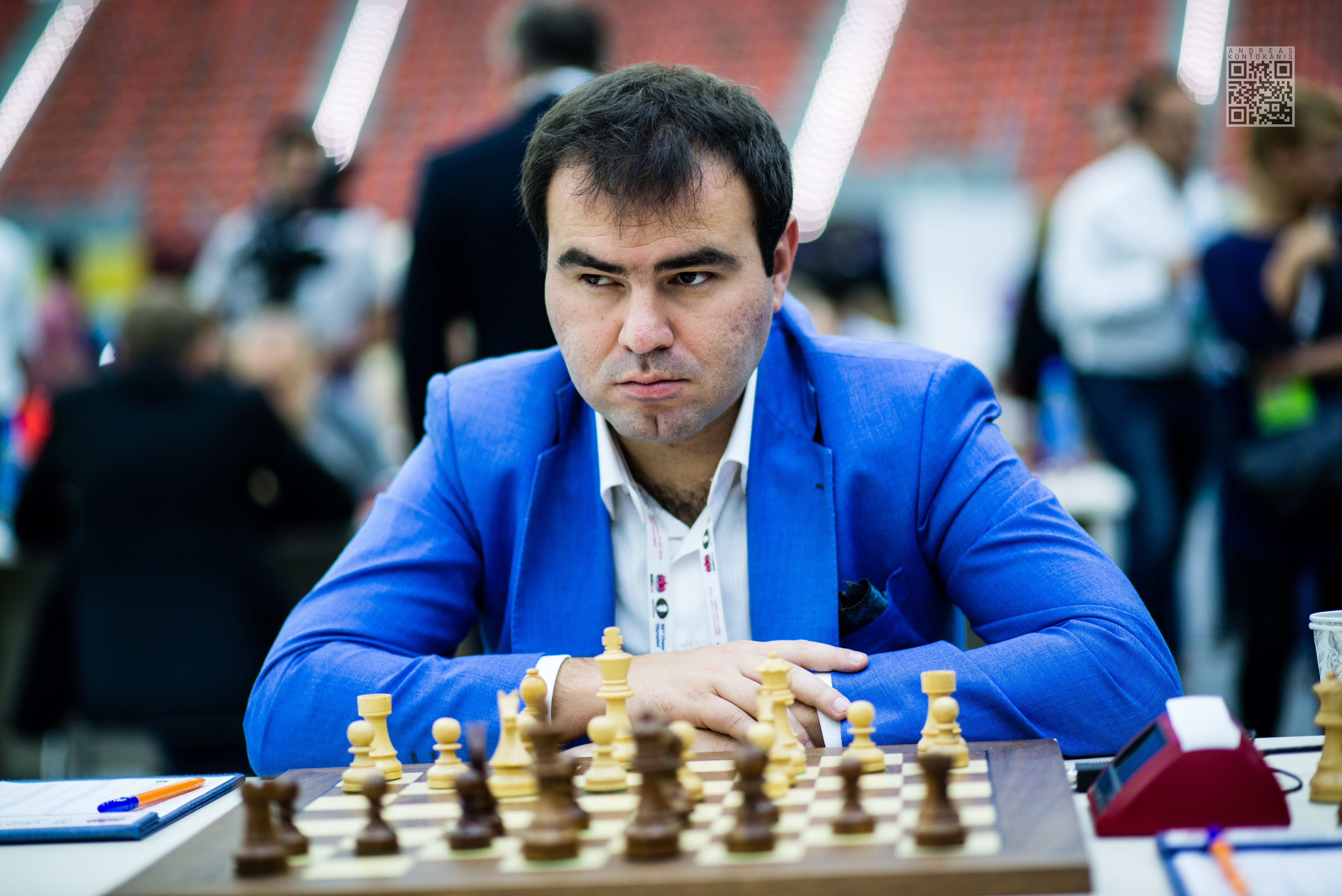 Mamedyarov Shakhriyar over the board